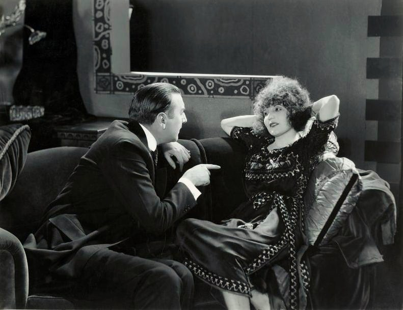 Mahlon Hamilton and Louise Glaum in Greater Than Love (1921) - cropped screenshot